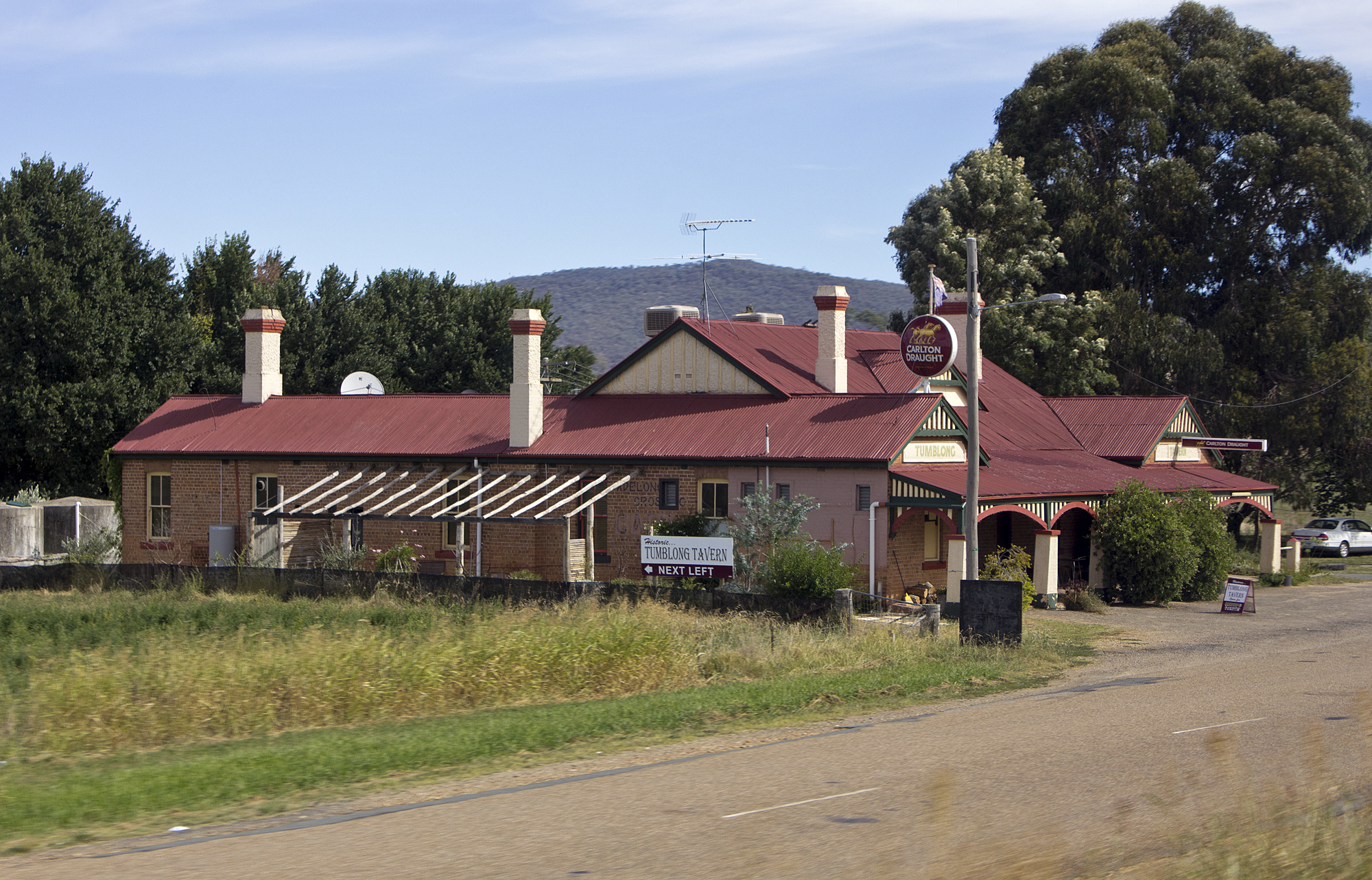 Tumblong Tavern viewed from the Hume Highway in Tumblong, New South Wales.